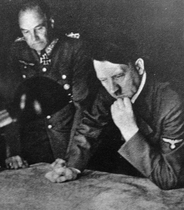 Adolf Hitler and OKH chief Field Marshal Walther von Brauchitsch, during the early days of Hitler's Russian Campaign